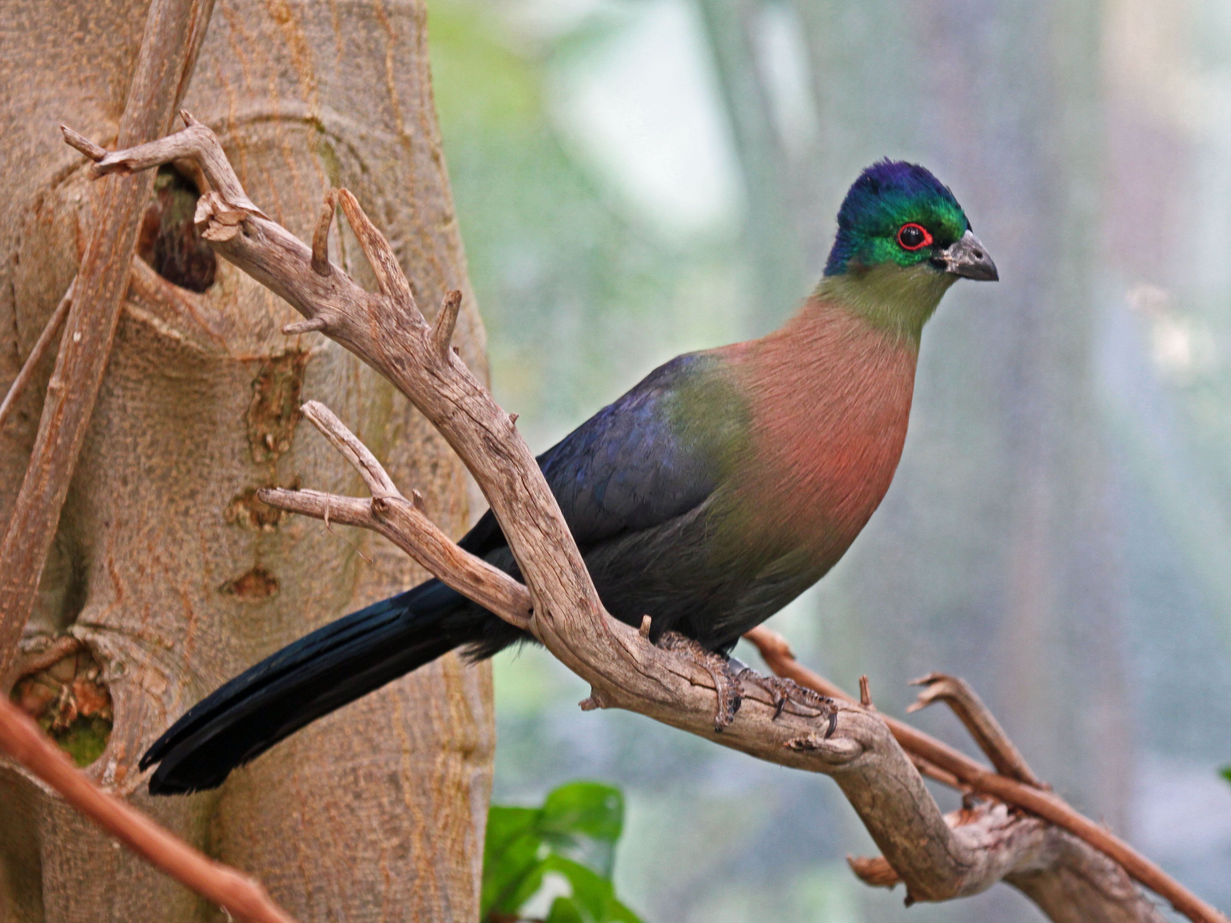 Purple-crested Turaco (Tauraco porphyreolophus) - San Diego Zoo